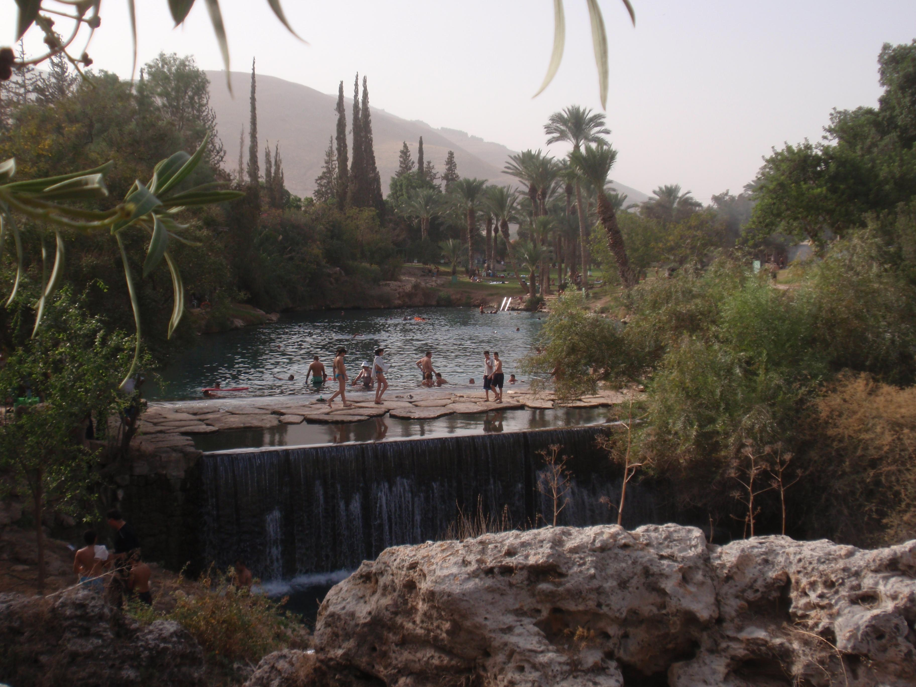 Gan ha-Shlosha Israel